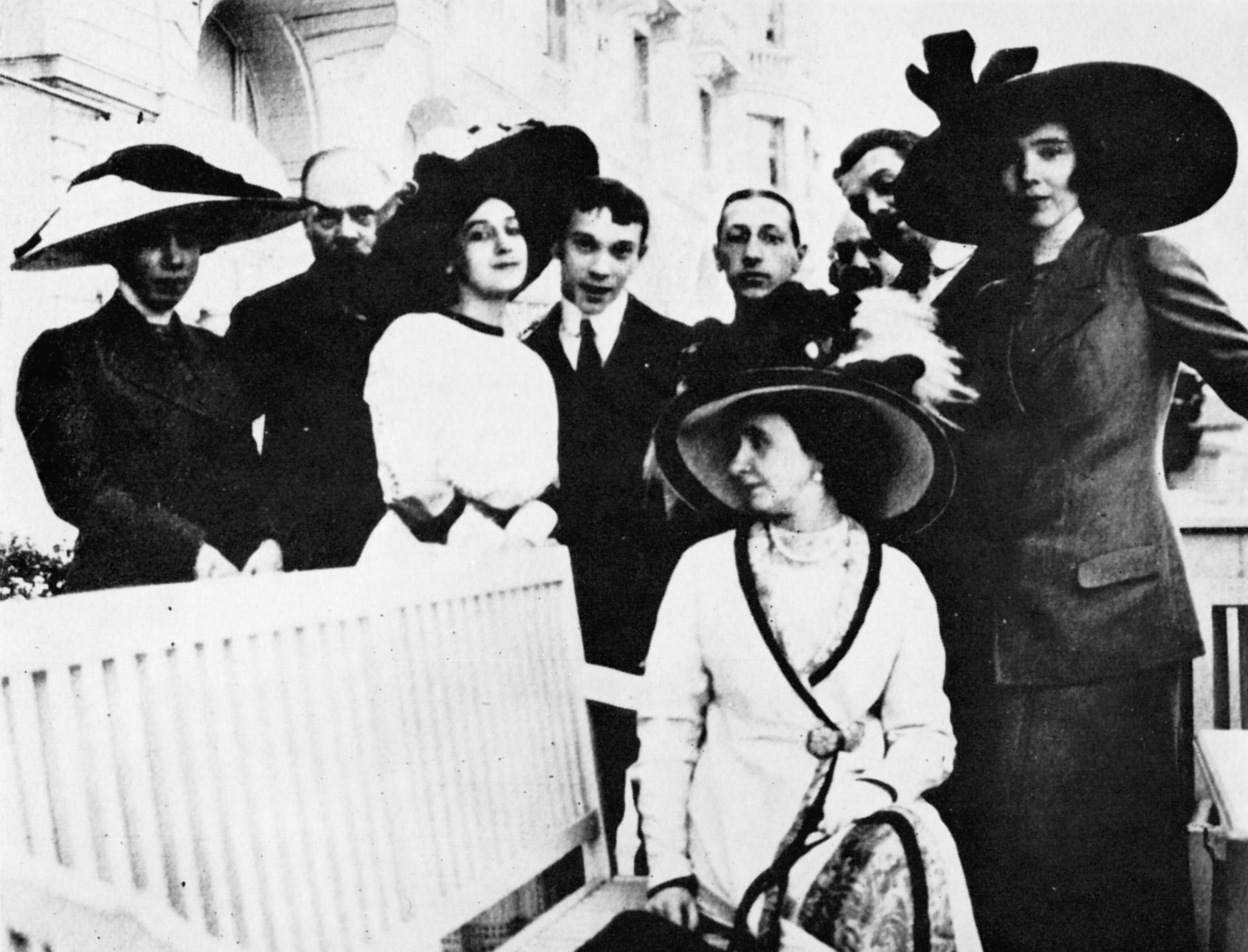 Photo of group of supporters and members of the Ballets Russes taken by one of its founders, Nicolas Besobrasov, who died of diabetes at Monte carlo. From left to right, in hat ?Botkine, Pavel Koribut-Kubitovitch, Tamara Karsavina, Vaslav Nijinsky, Igor Stravinsky. Alexandre Benois, Sergei Diaghilev, K Harris. Front, Alexandra Vassilieva. Taken at Beausoleil (monte carlo)